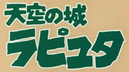 Title text of Tenkū no Shiro Rapyuta (Castle in the Sky), from the Japanese DVD cover.